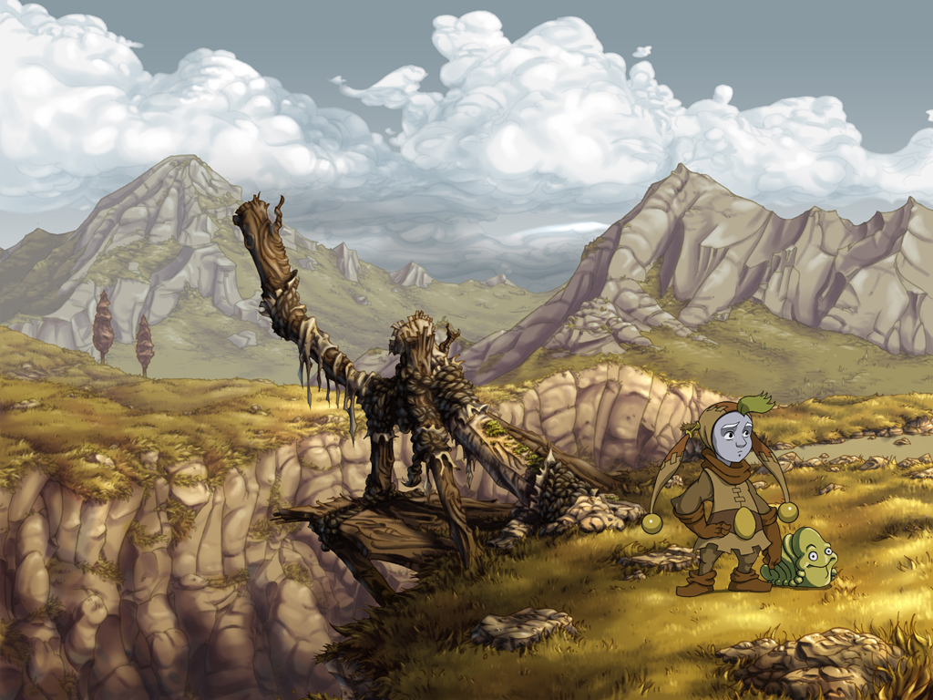 A screenshot from the computer game „The Whispered World“.